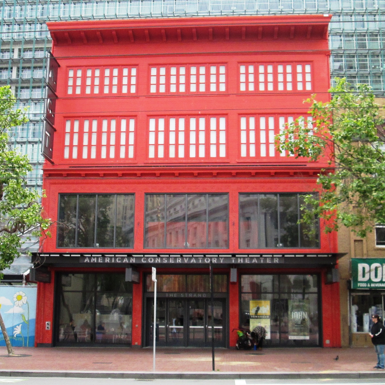 In 2015, the American Conservatory Theater opened the Strand Theater at 1127 Market Street between 7th and 8th Streets, across from the U.N. Plaza in the Civic Center neighborhood of San Francisco. The building has a 283-seat theater as well as a 120-seat event and performance space. A.C.T. utilizes the theater to present educational workshops, cabaret performances and specially commissioned new works, as well as productions connected to their M.F.A. and Young Conservatory programs. (Source: "The Strand Theater" A.C.T. website)